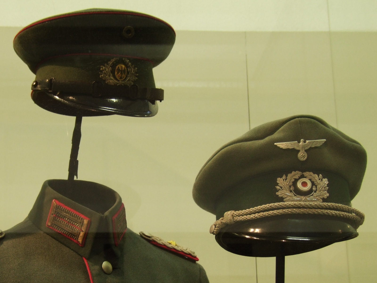 German military uniforms (Reichswehr - on the left, Nazi Germany - on the right). Militärhistorisches Museum der Bundeswehr, Dresden